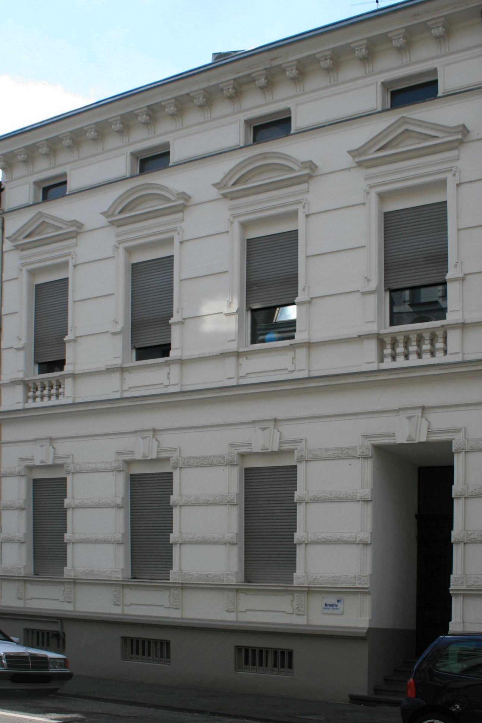 Cultural heritage monument No. H 057 in Mönchengladbach